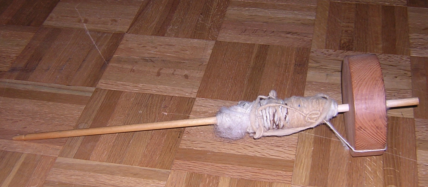 A wooden drop spindle